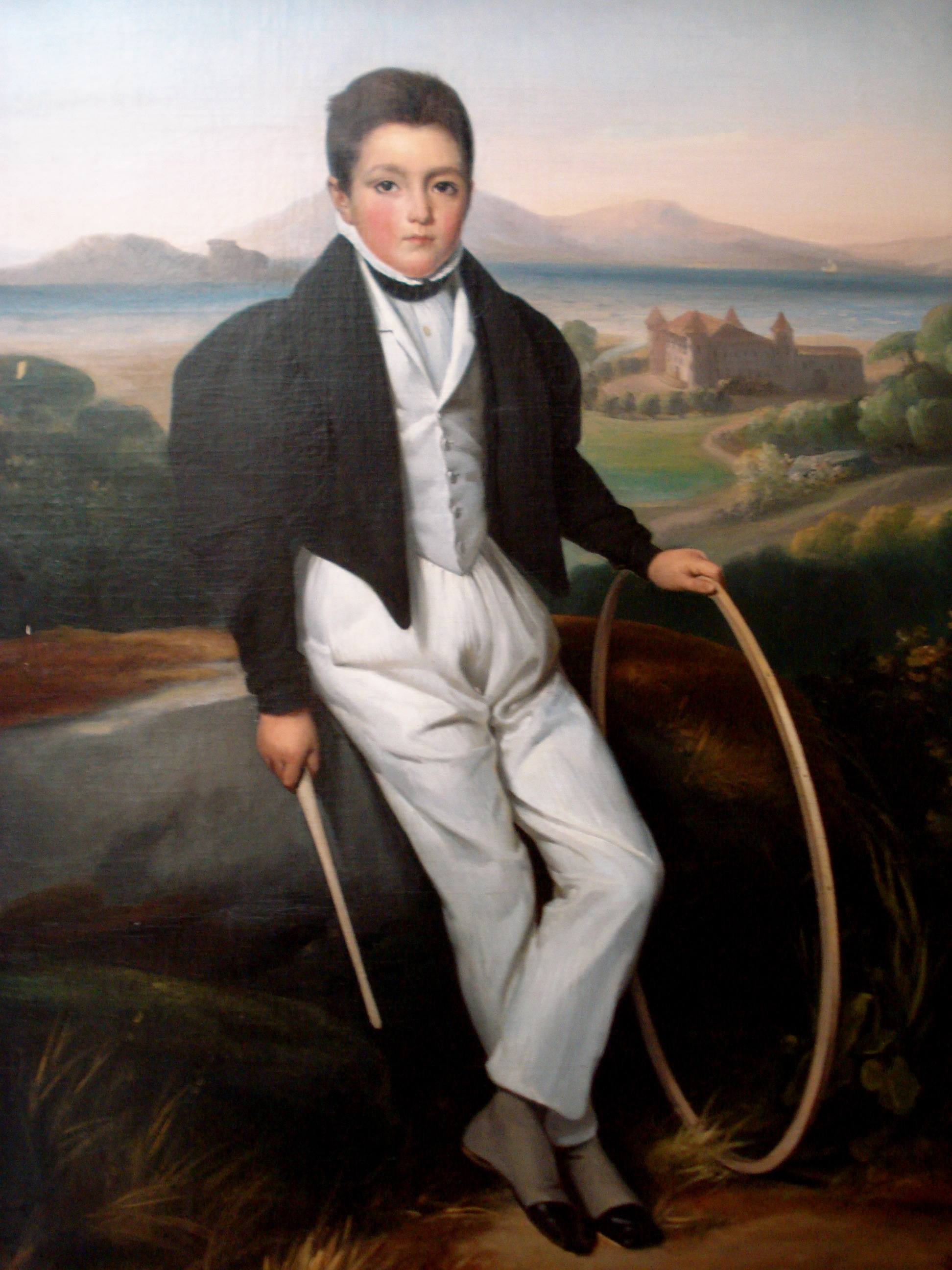 Portrait of Ferdinando Maria di Savoia duke of Genoa - Alexis Leon Louis Valbrun, 1933